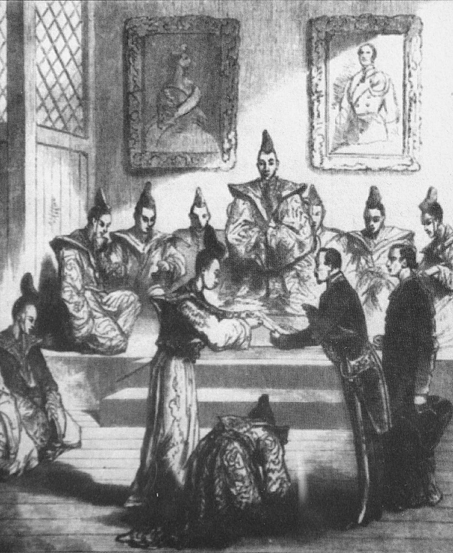 Duchesne_de_Bellecourt_remitting_the_ratified_France_Japan_Treaty_to_the_Shogun_in_1859